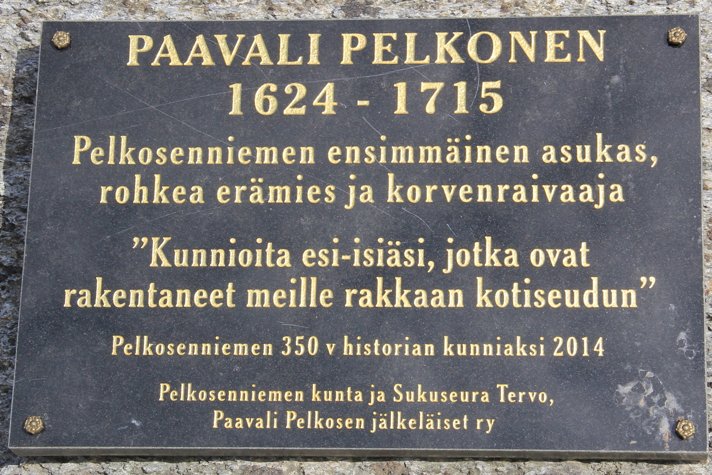 Paavali Pelkonen memorial plaque, Pelkosenniemi, Finland. - Unveiled in 2014.